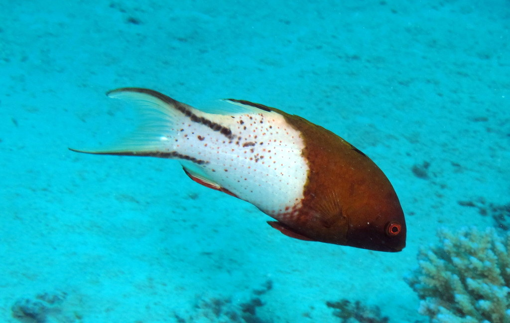 Lyretail Hogfish – Bodianus anthioides at Fanous East Reef, Red Sea